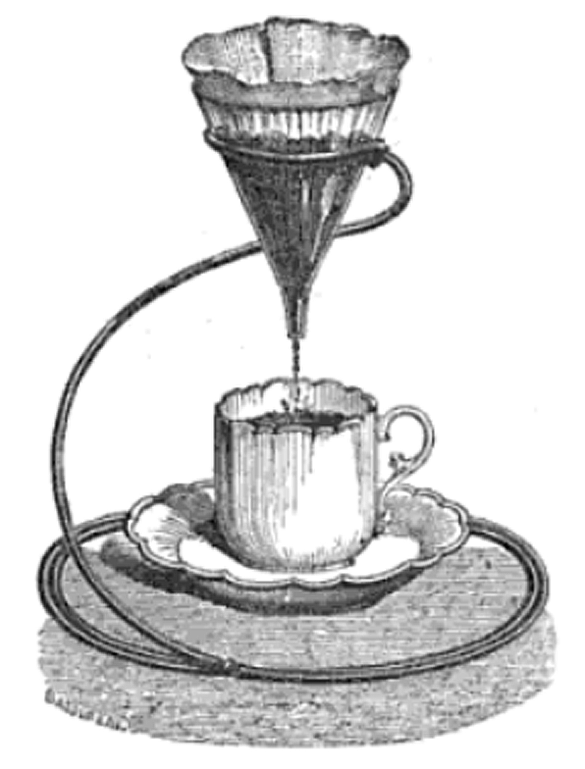 filter system for individual coffee cup existing in 1868.